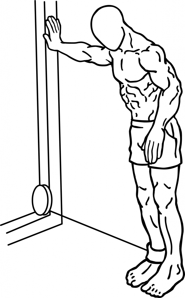 an exercise of inner thigh